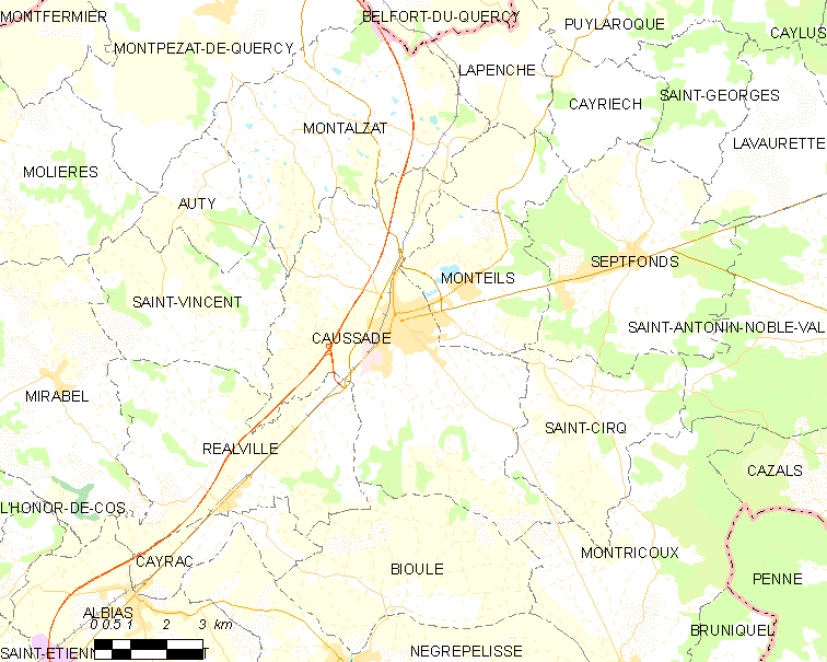 Map of French municipality Caussade